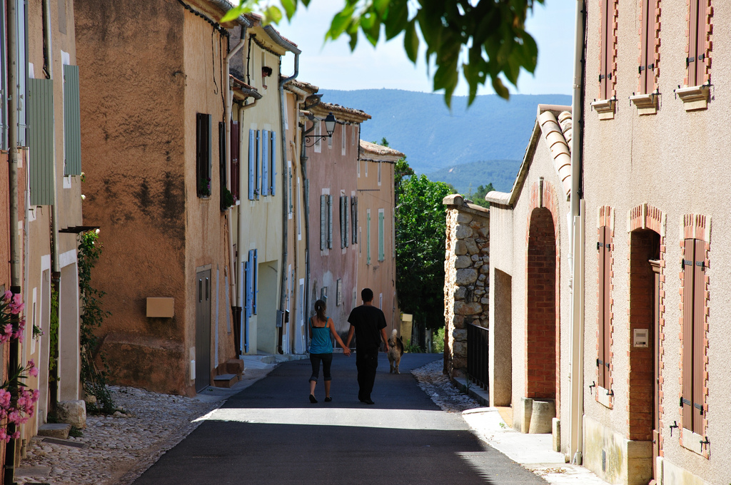 Street of Flassan